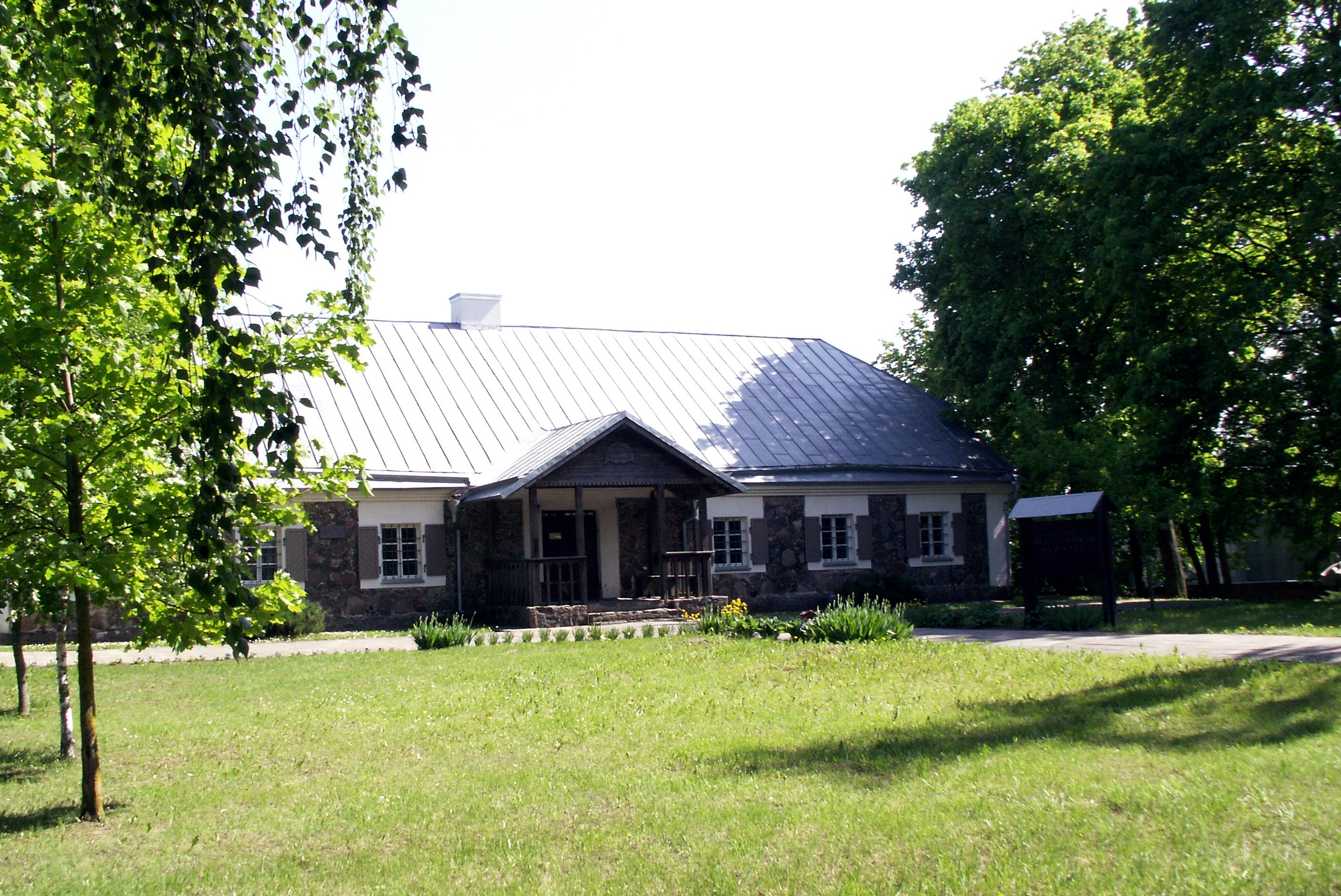 Naisiai, museum of literature, Šiauliai district, Lithuania